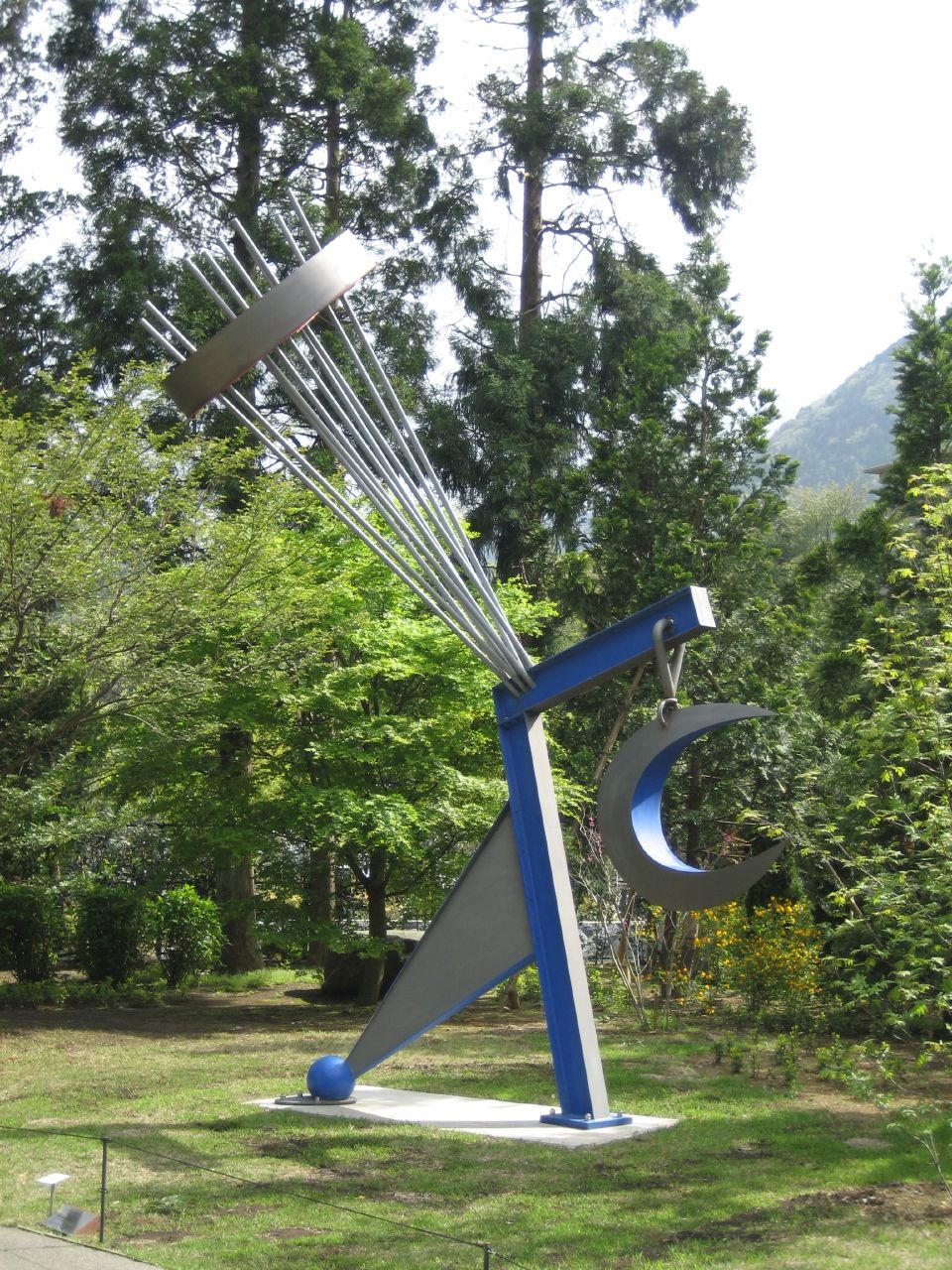 sculpture (in the nineties) by Phillip King in Hakone Open-air Museum/Japan